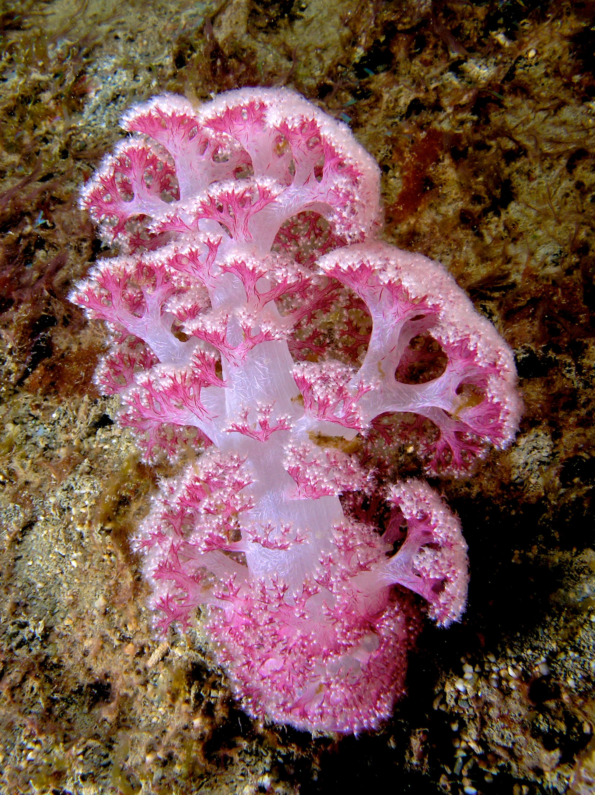 Dendronephthya sp. (pink soft coral)